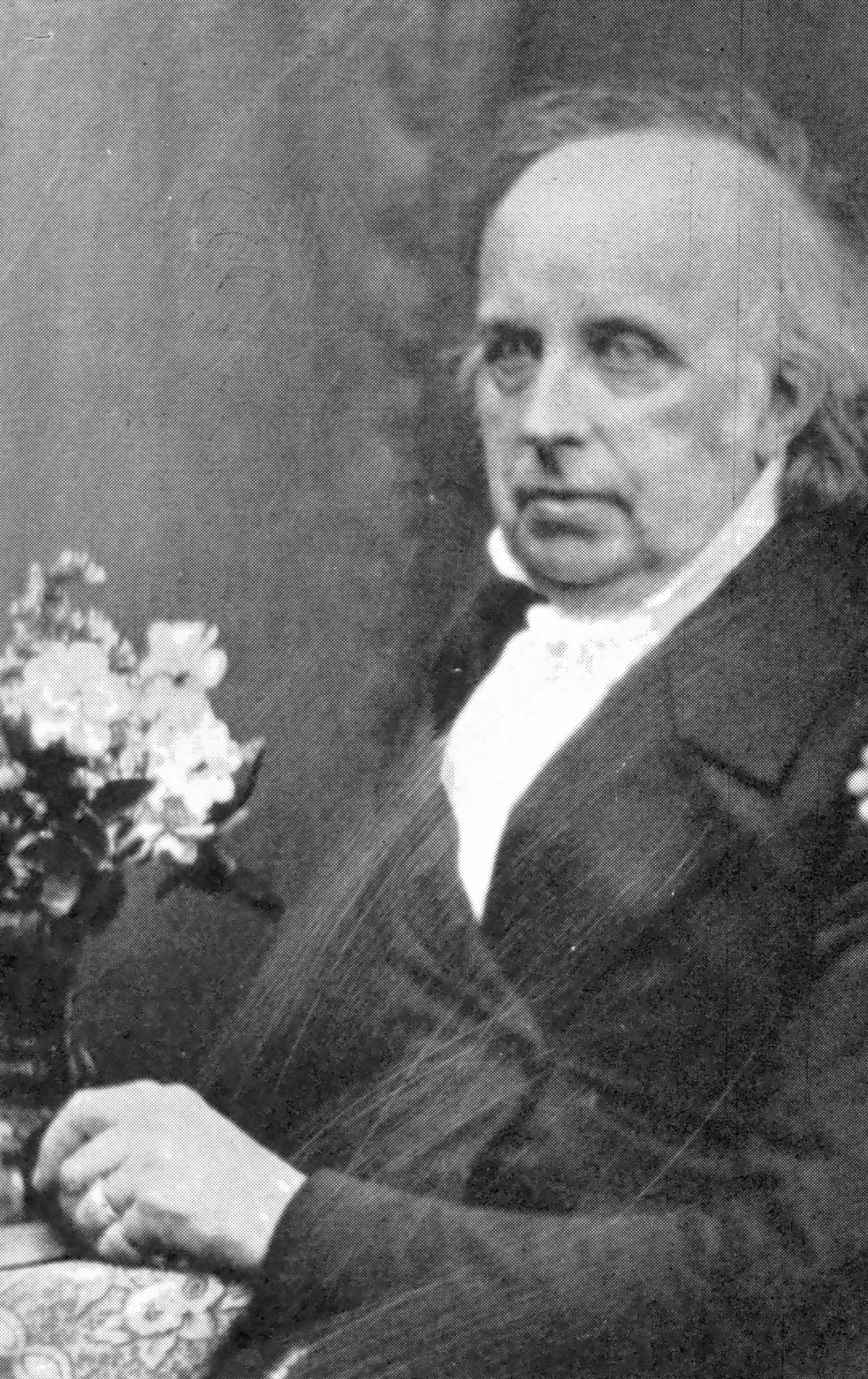 Lutteroth, Mayor of Hamburg 1862-63, 1865-66